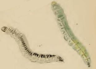 Stainton’s Natural History of the Tineina (1855–1873): Caloptilia elongella